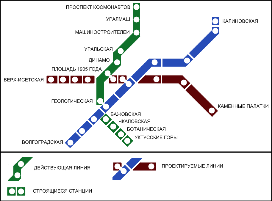 A scheme of Yekaterinburg Metro